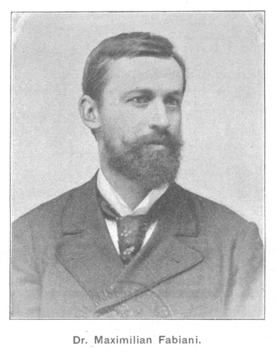 Photo of Max Fabiani (1865-1962), Austrian-Italian architect.